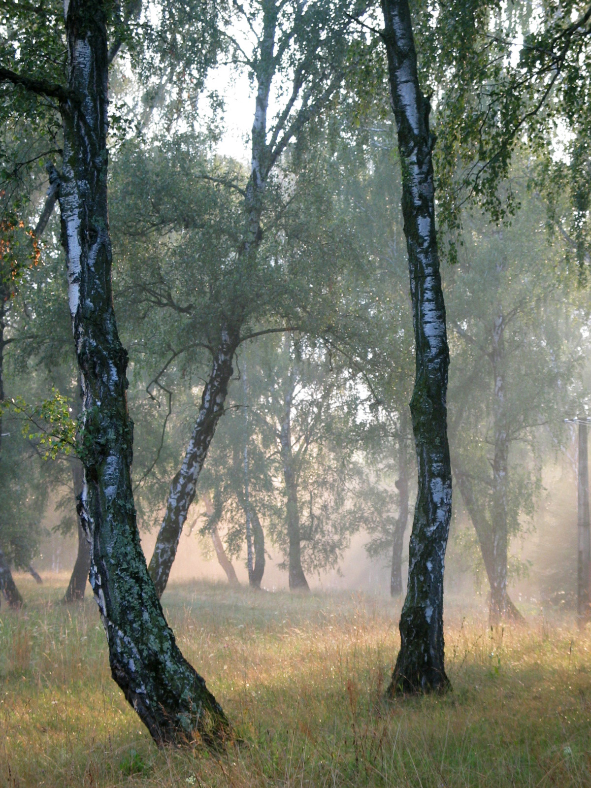 Nature Reserve Reci, with Betula pendula